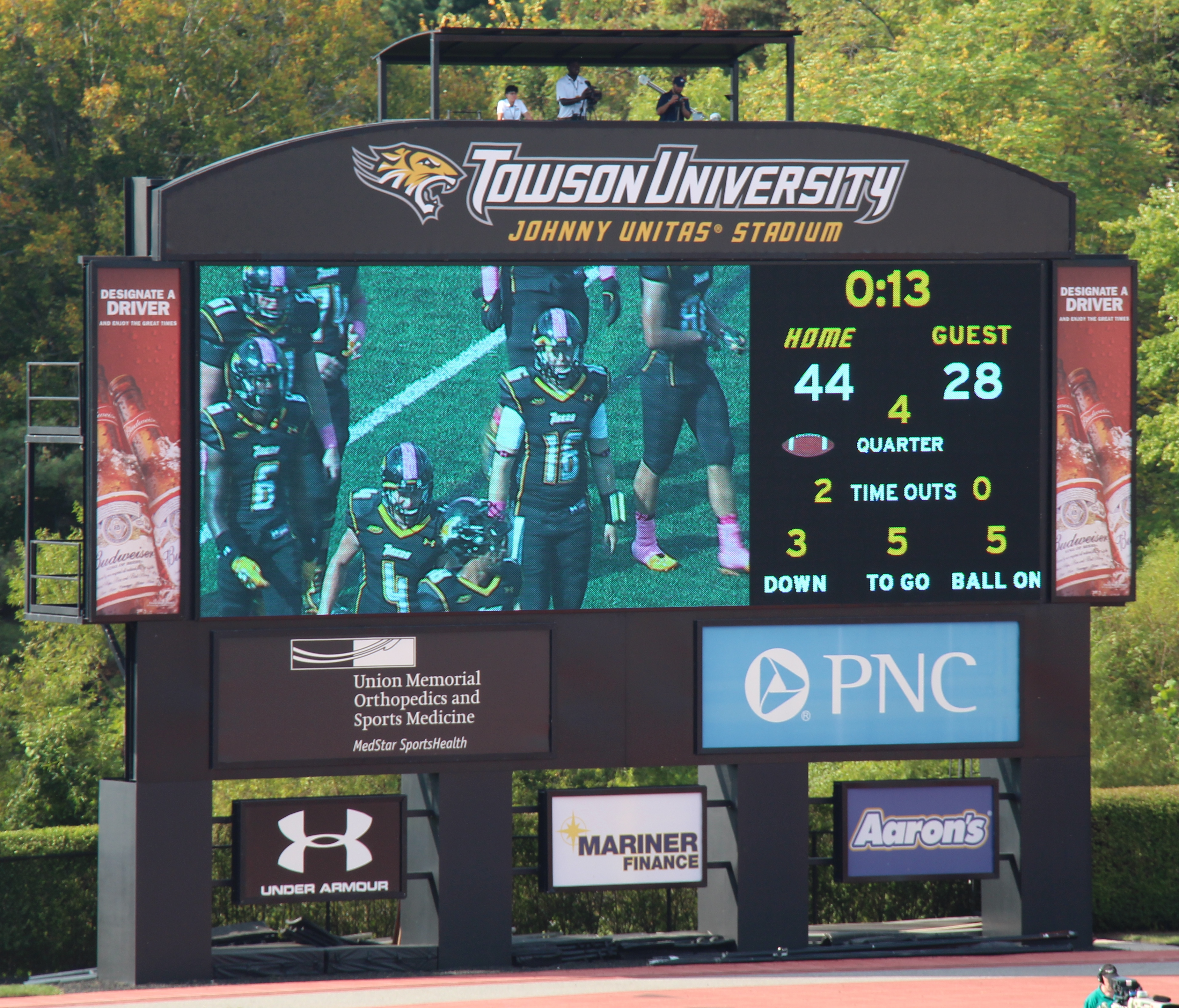 New Daktronics video scoreboard at Johnny Unitas Stadium